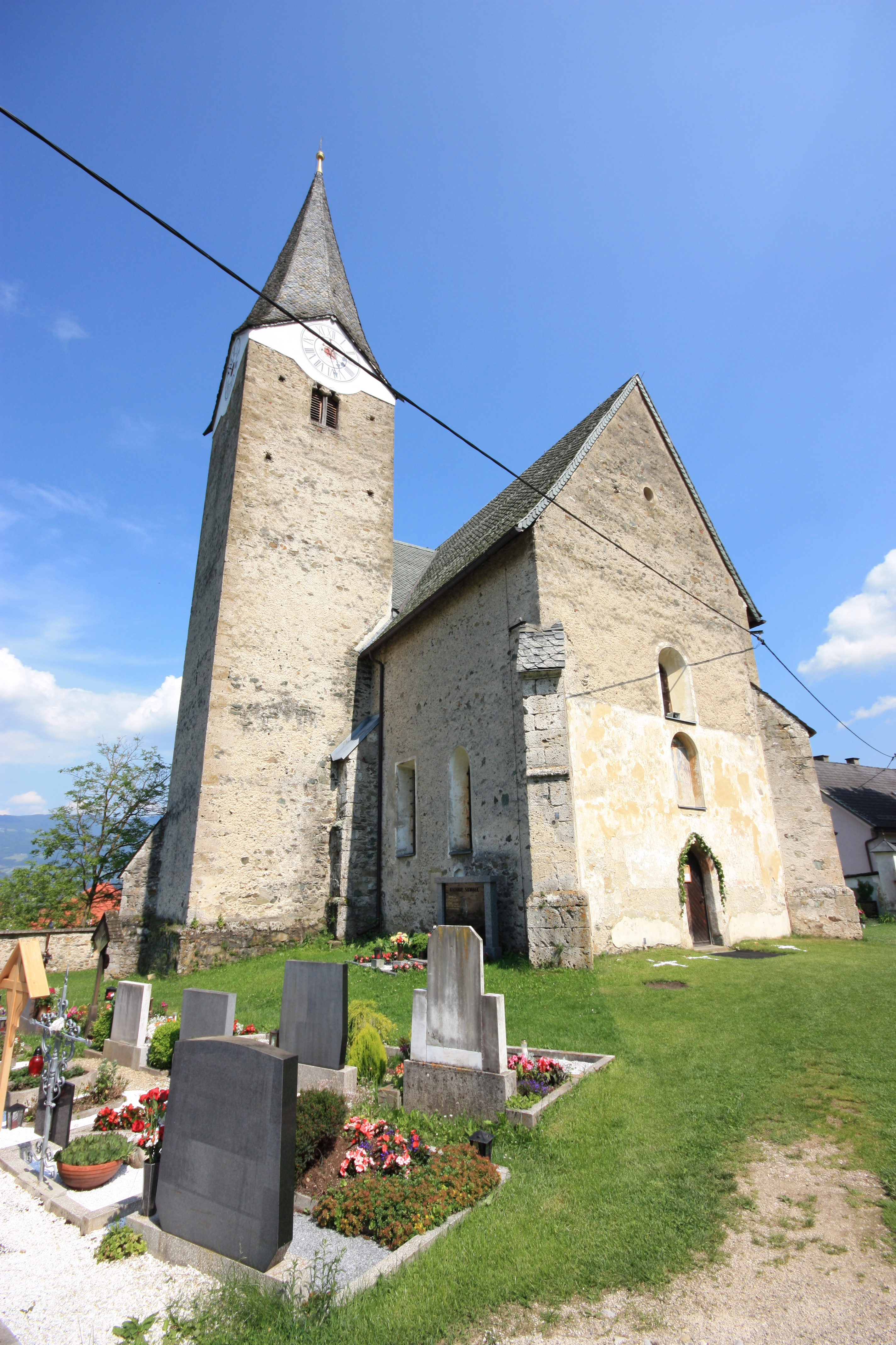 Parish-church in Neuhaus/Suha, Carinthia